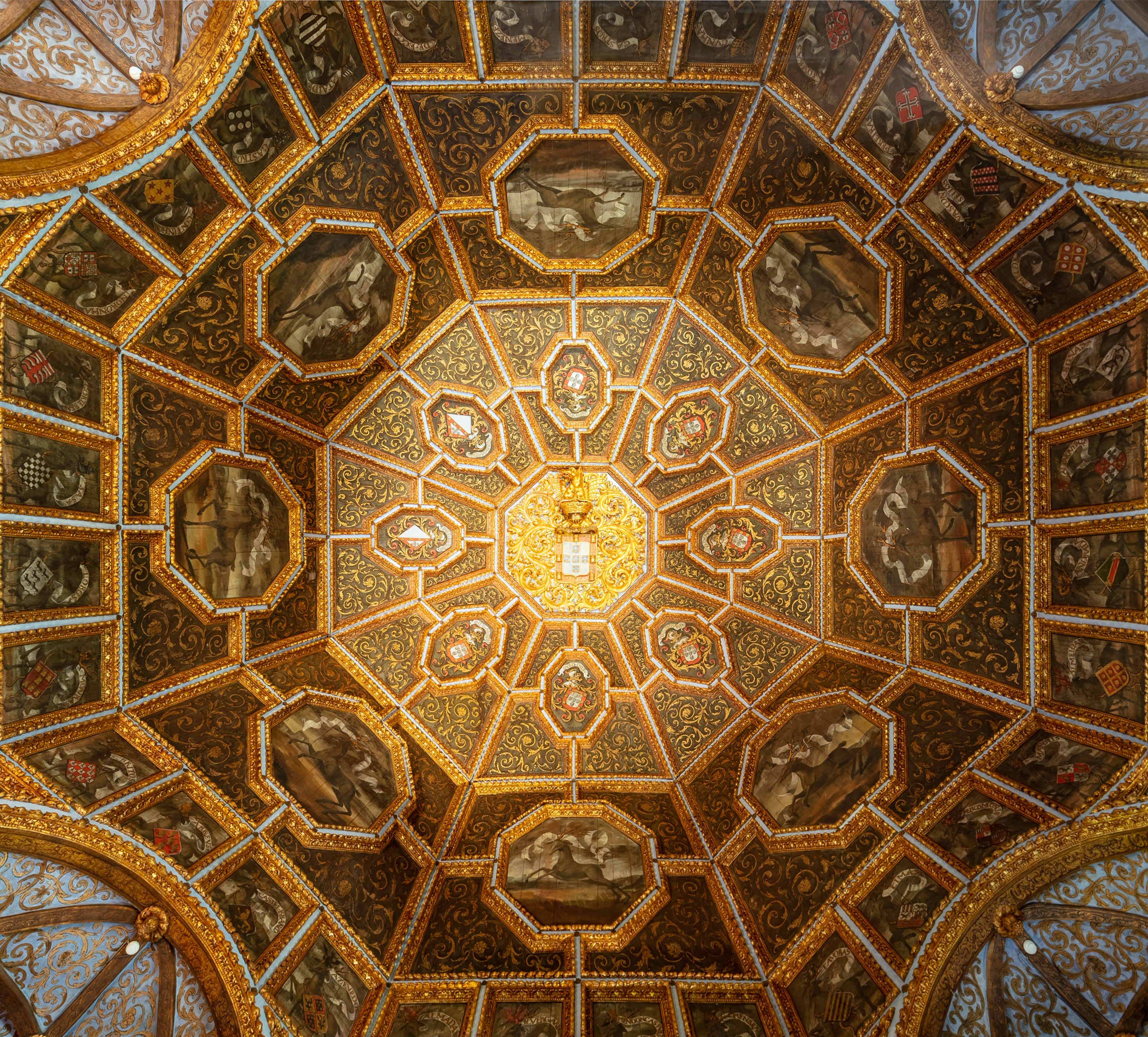 Palácio Nacional, Sintra, Portugal